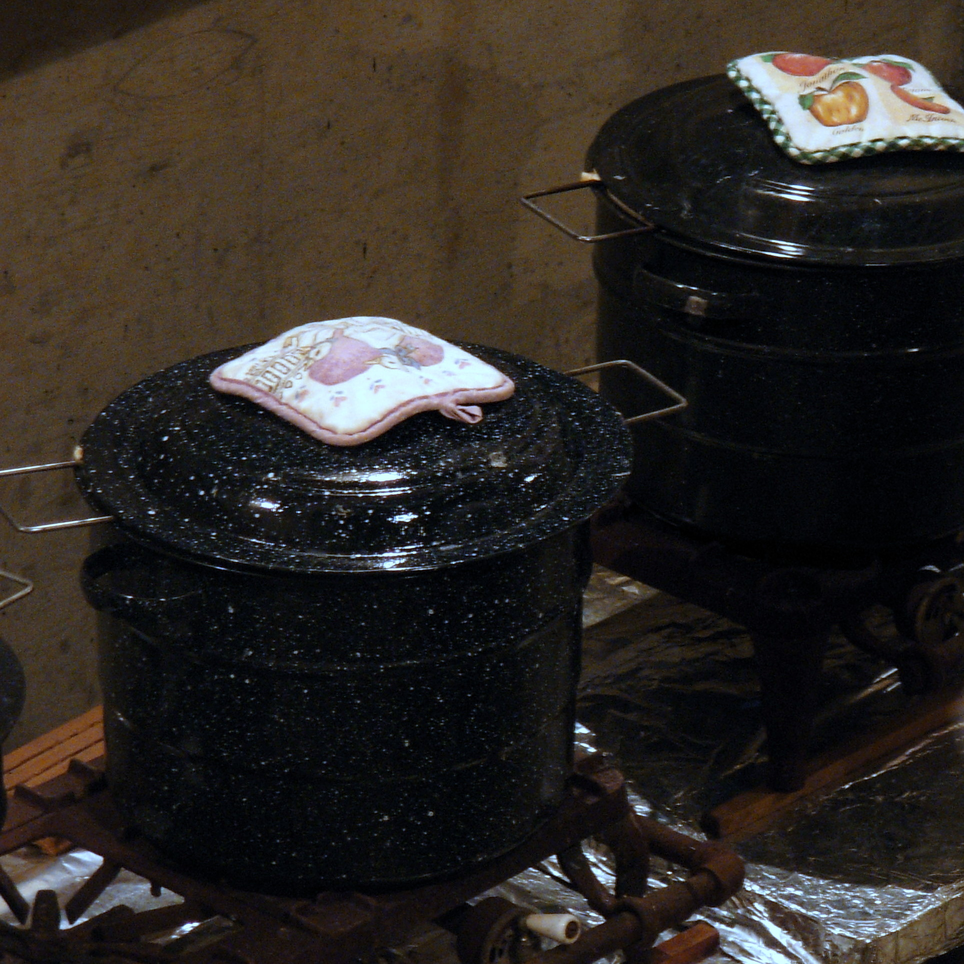 Lutefisk boiling pots at a Minnesota church supper.